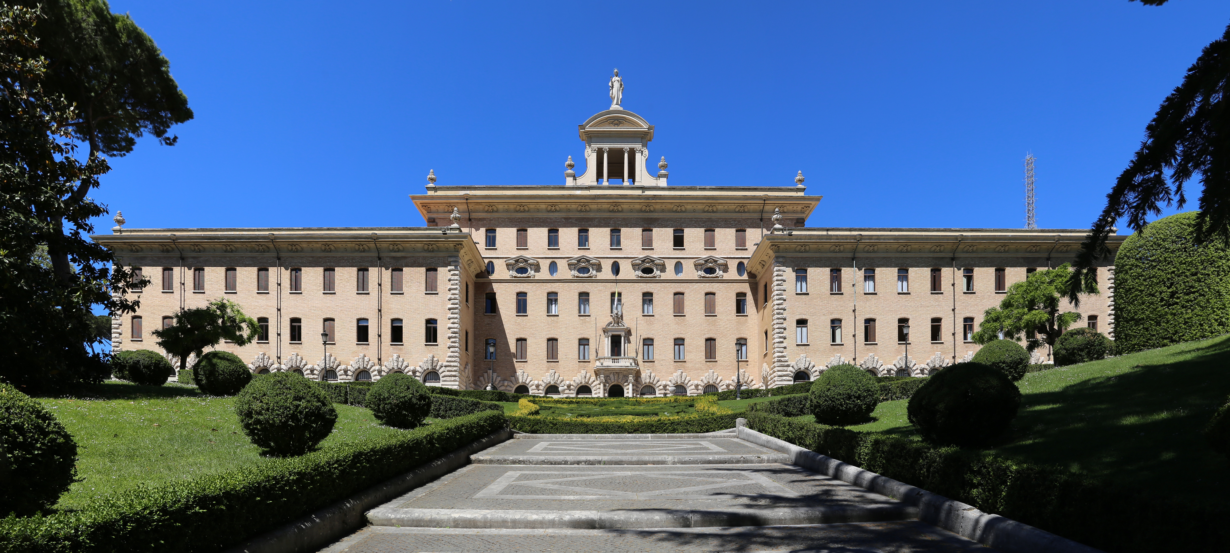 Gardens in the Vatican City